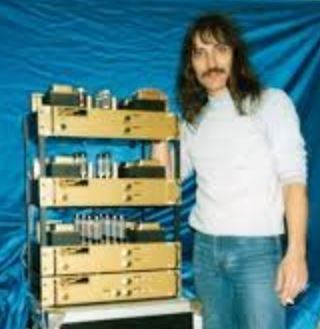 Bob Gjika with his Gold Amp - Memphis, TN 1988